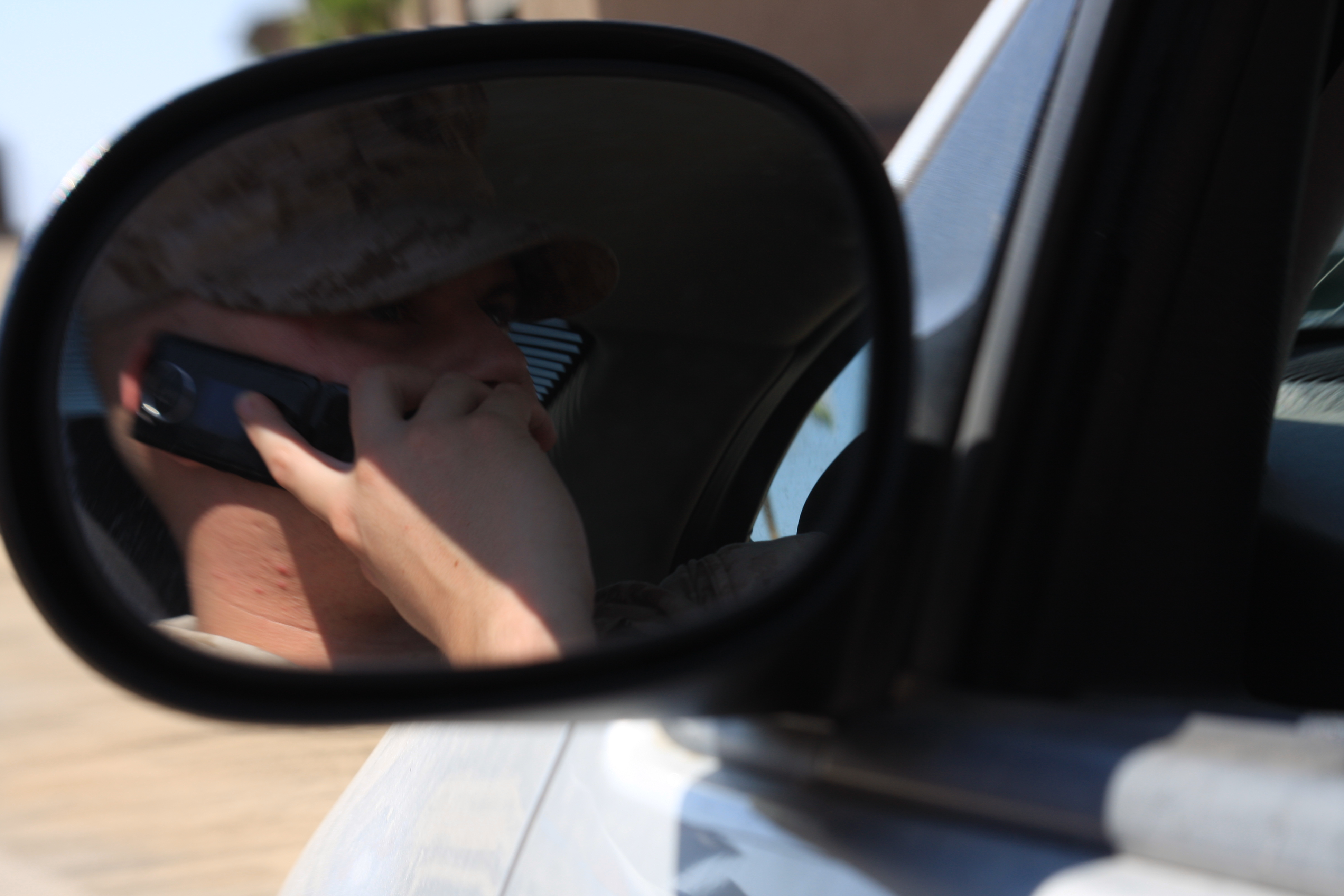 Talking on a cell phone while driving a vehicle is dangerous to the driver and everybody around them and should be reported as a third party citation to the Provost Marshal’s Office traffic court.